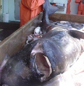 Pacific sleeper shark (Somniosus pacificus)